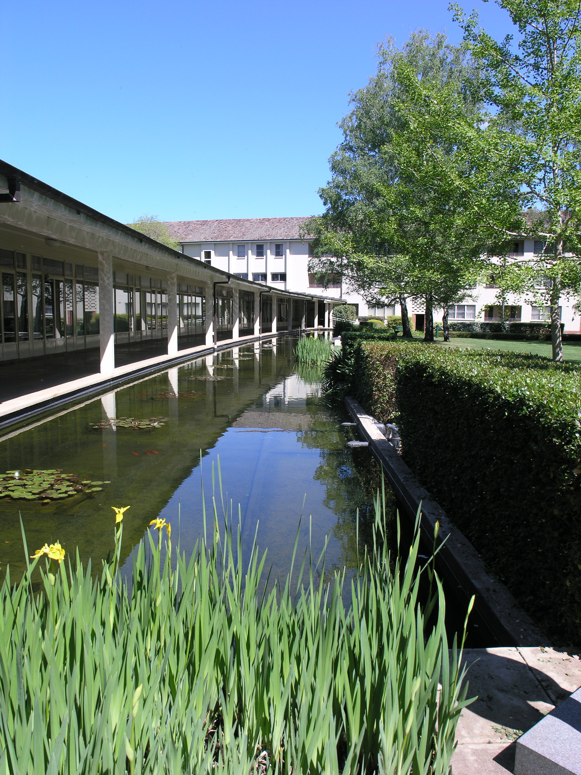 University House, ANU, Canberra, Australia